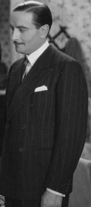 Enrique Roldan- actor